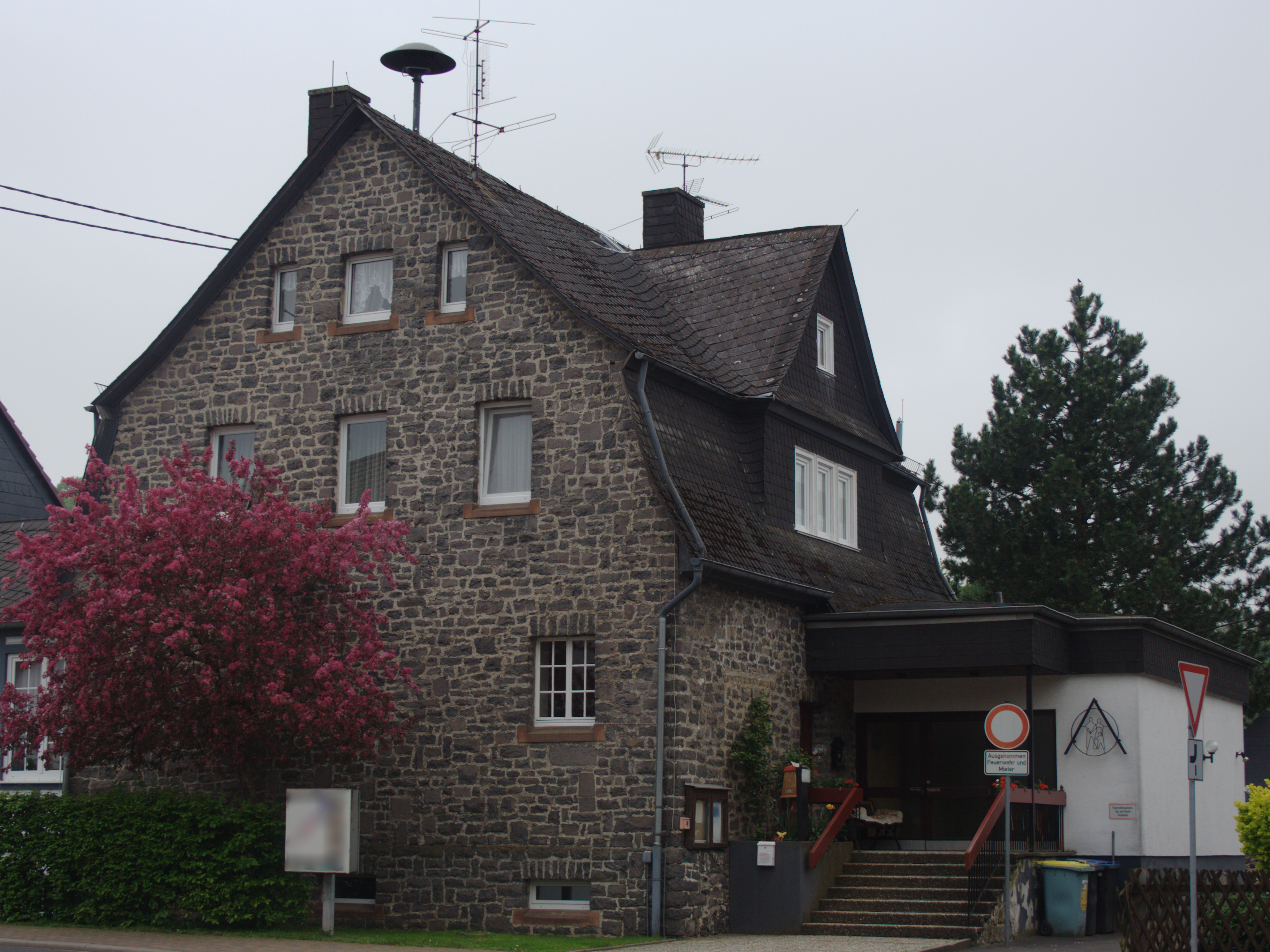 Building (community centre) in Muecke Hoeckersdorf, Hesse, Germany